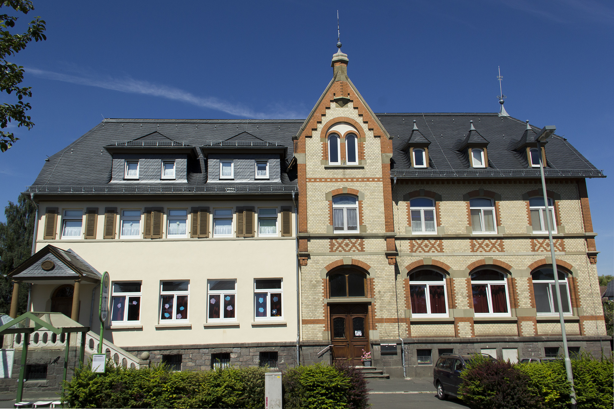 Village community house Wetterfeld (Laubach).